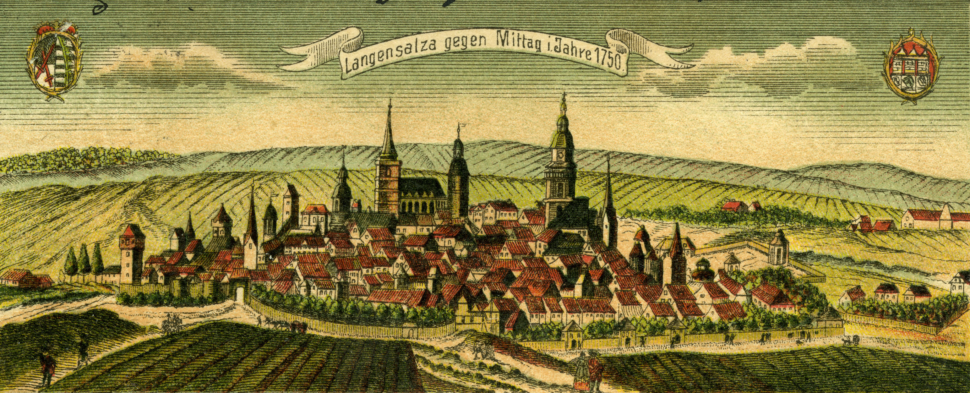 Crop of a picture of Langensalza town in Germany, in the year 1750